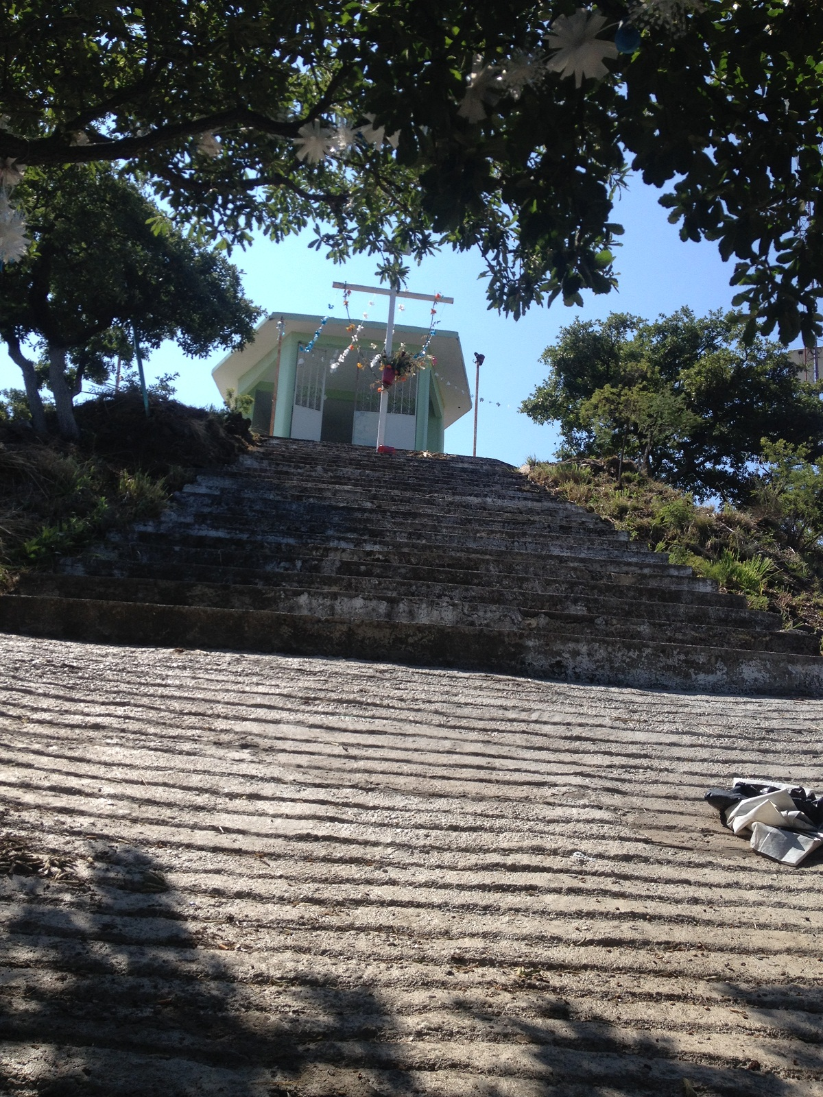 Shrine on top of Teotón Hill